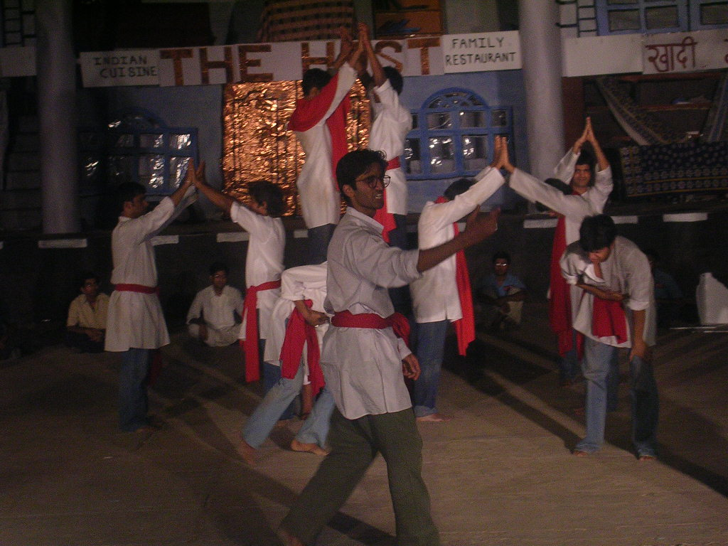 Self-photographed.